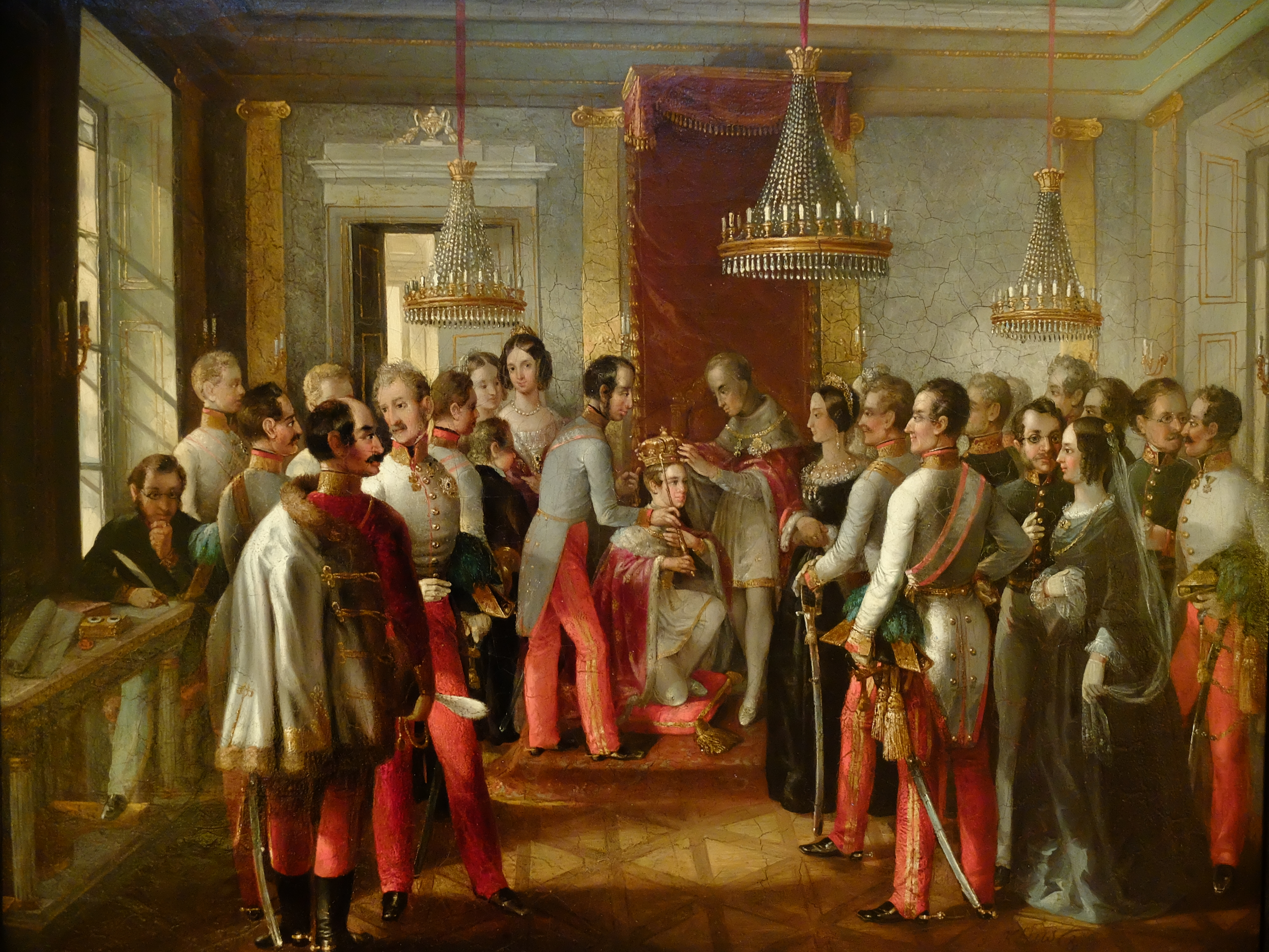 Josef Klaus (1812-1877), Coronation of Emperor Franz Joseph I at the palace of the Archbishop of Olomouc on December 2nd, 1848